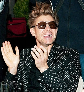 Mitia Fomin 37th birthjday